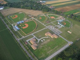 Little League Baseball pitch in Kutno